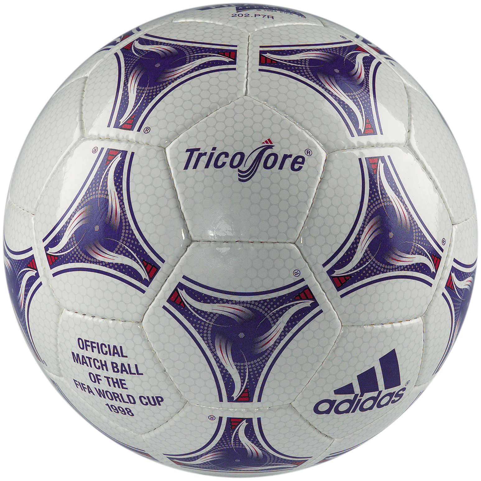 Adidas Tricolore was the first ever multi-colored Match Ball. France’s flag and national colors (the Tricolore) and the “cockerel” the traditional symbol of the French nation and Football Federation, inspired the ball’s name and design. Moreover, the adidas Tricolore featured an advanced “syntactic foam” layer - a tight regular matrix, composed of gas-filled, individually closed and highly durable micro balloons. The syntactic foam further improved the ball’s durability, energy return and made it more responsive.